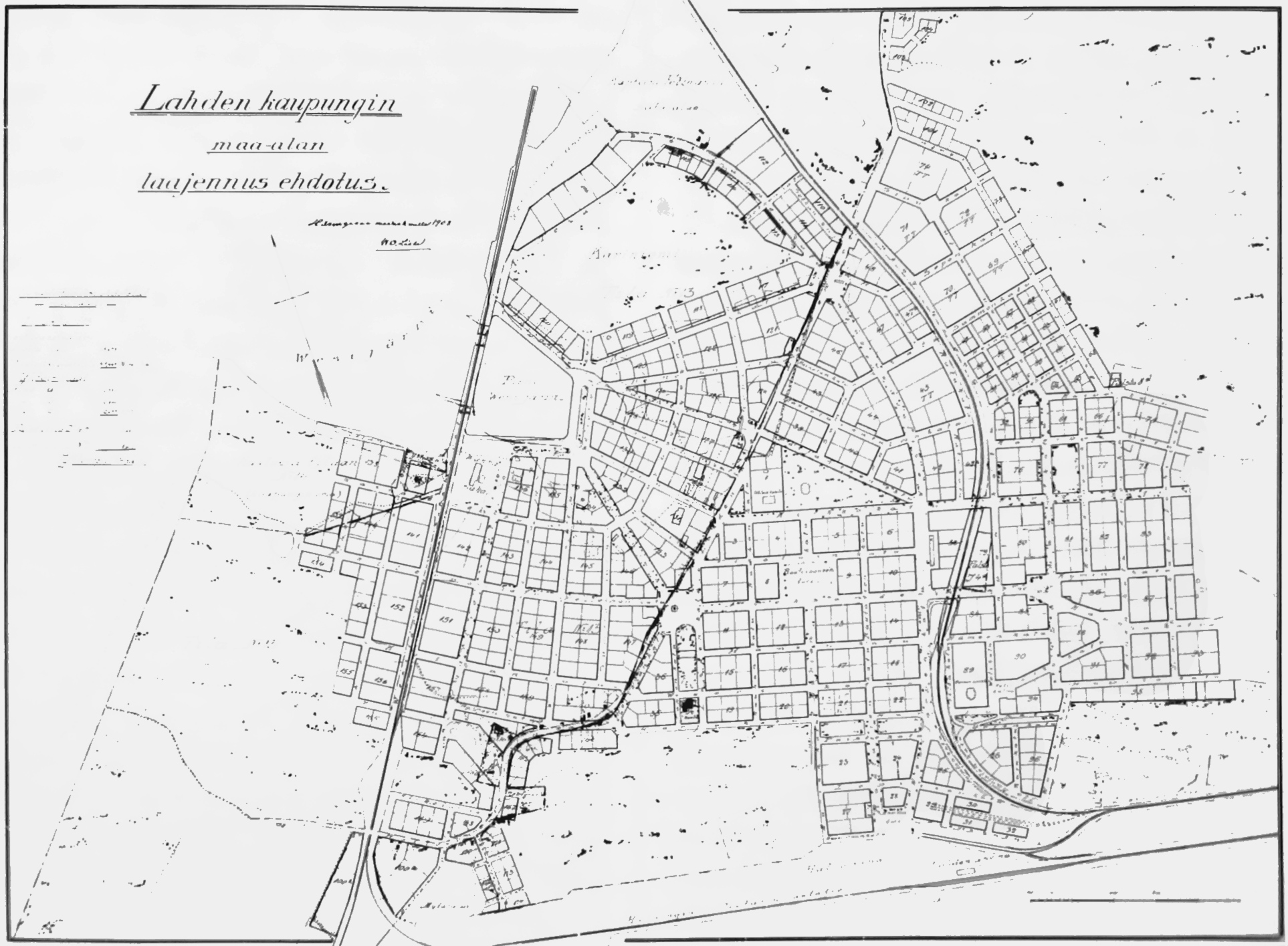 Lahti town plan by W.O. Lille from 1908